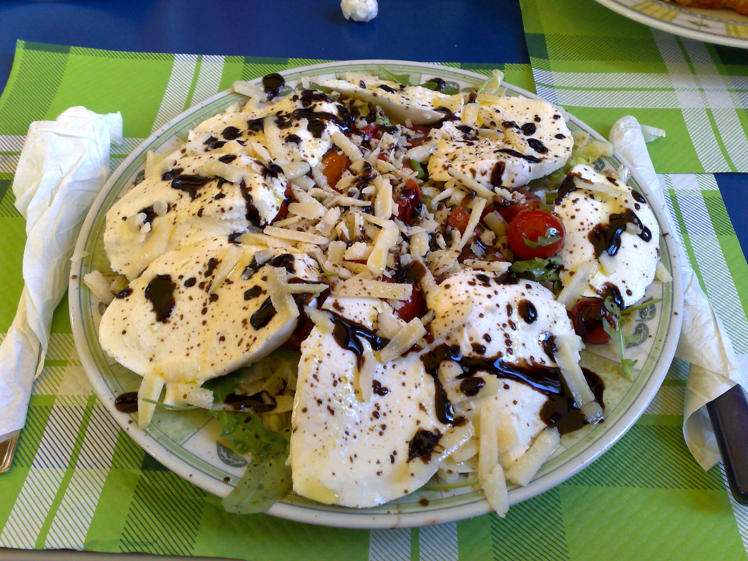 vegetarian salad (Palermo)